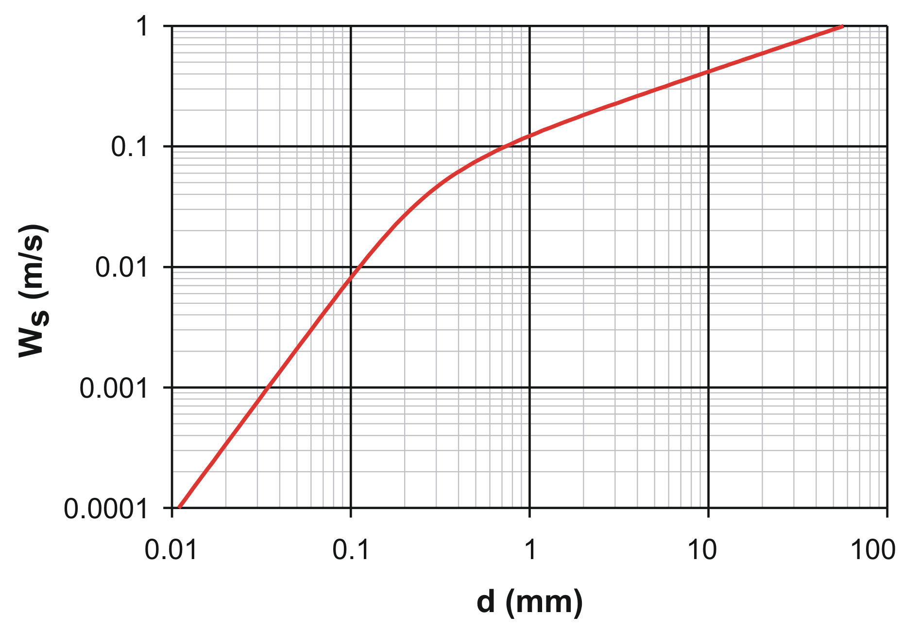 Settling velocity Ws of a sand grain (diameter d, density 2650 kg/m3) in water at 20°C, computed with the formula of Soulsby (1997). Soulsby R. (1997) Dynamics of marine sands: a manual for practical applications. Thomas Telford, London, 249 p.